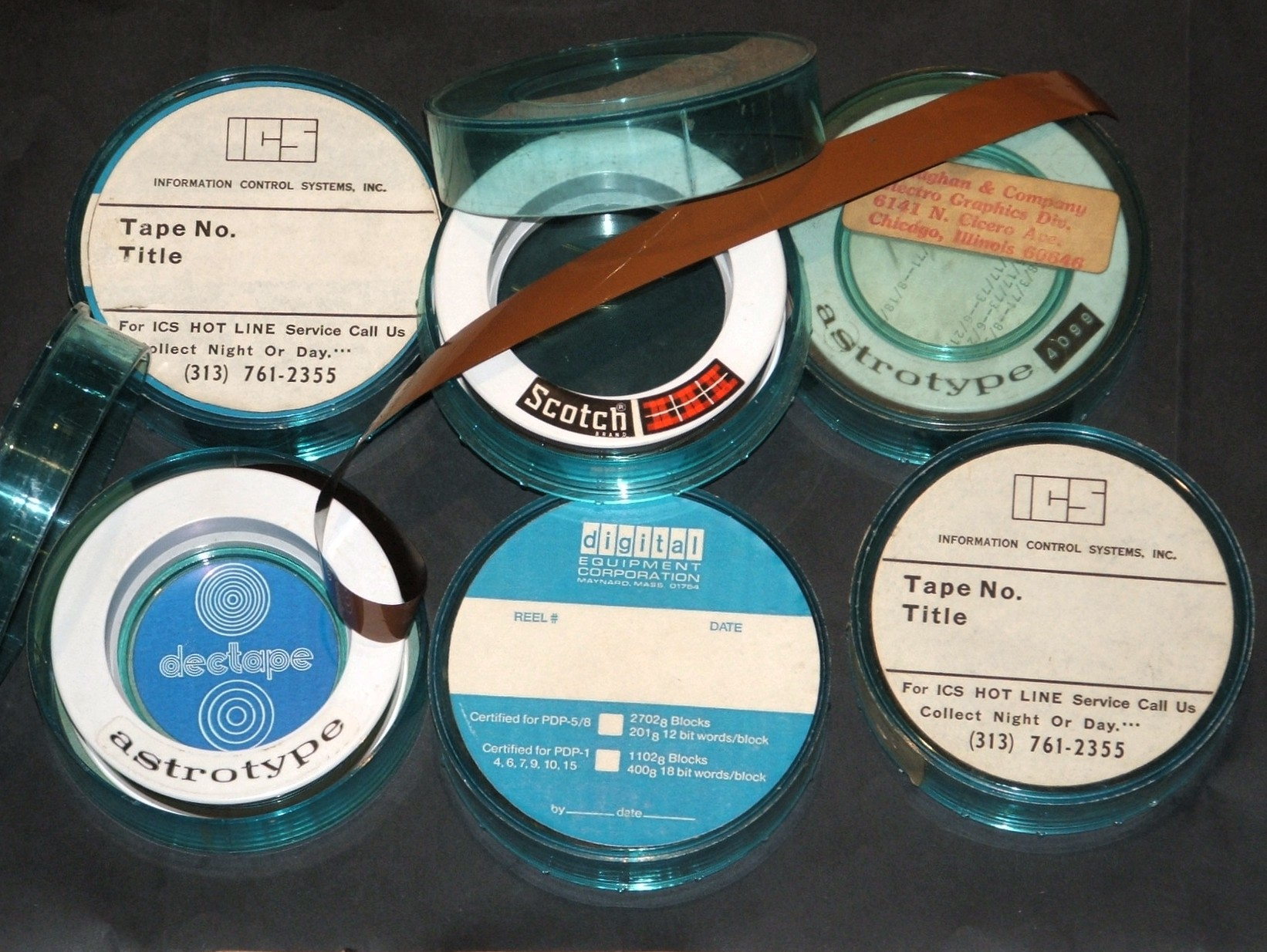 Tapes from an Information Control Systems Astrotype system. The ICS label on one tape canister is obviously pasted over a DECtape label, and one of the tapes is a generic DECtape made by 3M.